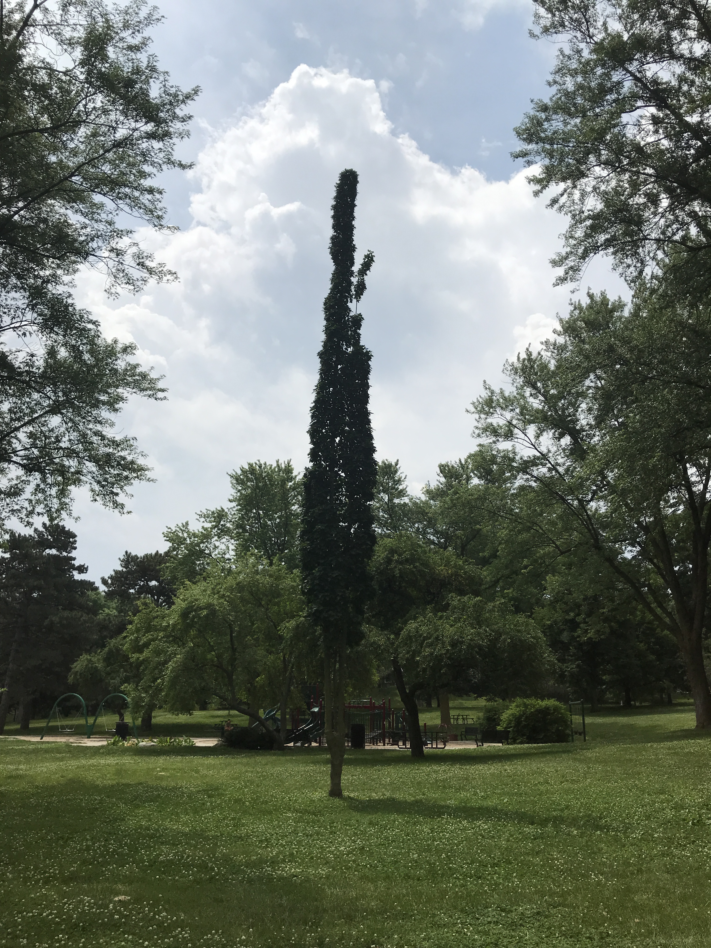 This is the famous pencil tree at Metcalfe Park. It is often used for home base, and painted by plen air artists.